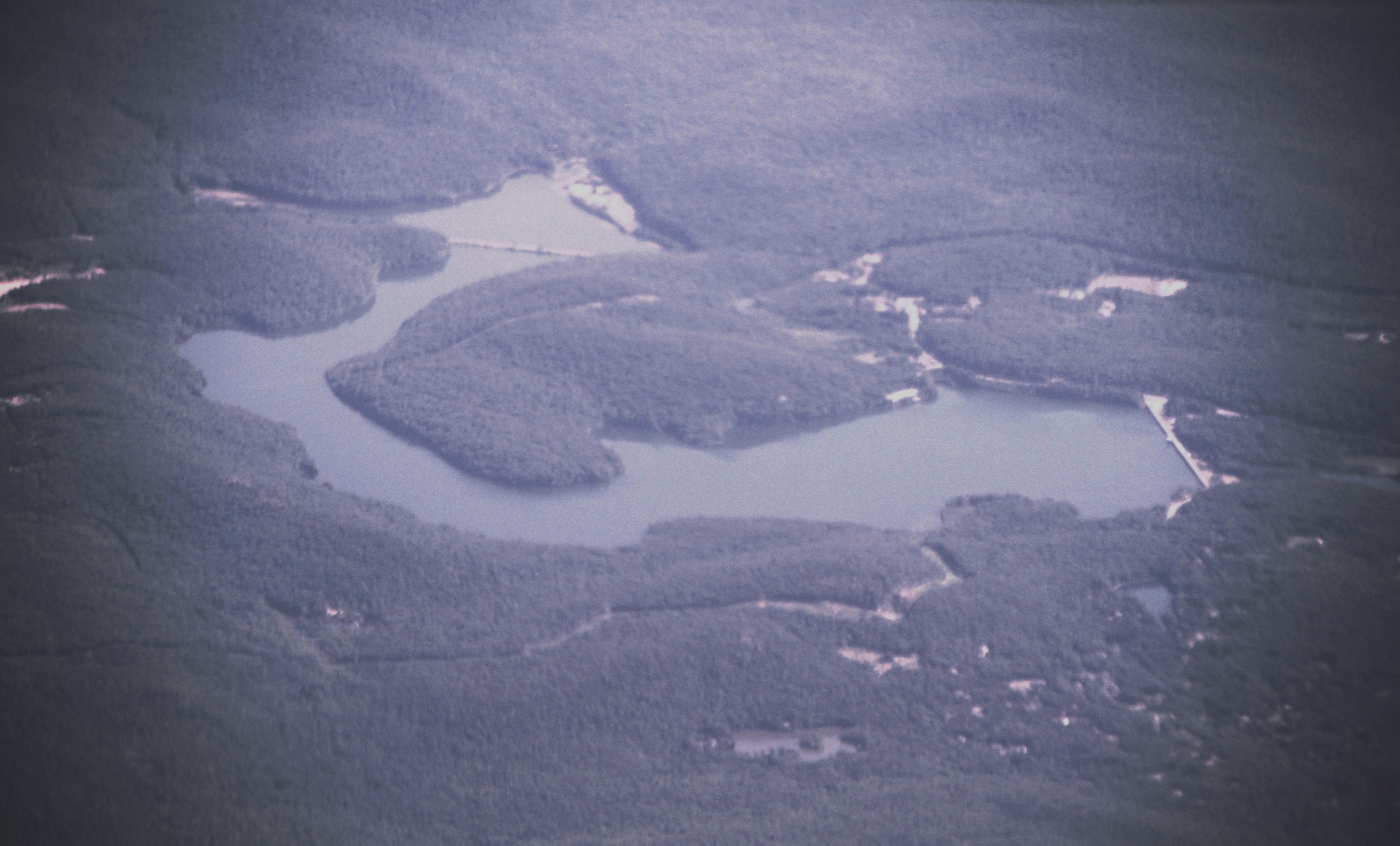 Aerial view of the Monksville Reservoir in upstate New Jersey. The small city of Monksville was buried under this reservoir when it was dammed, and is lost from sight.